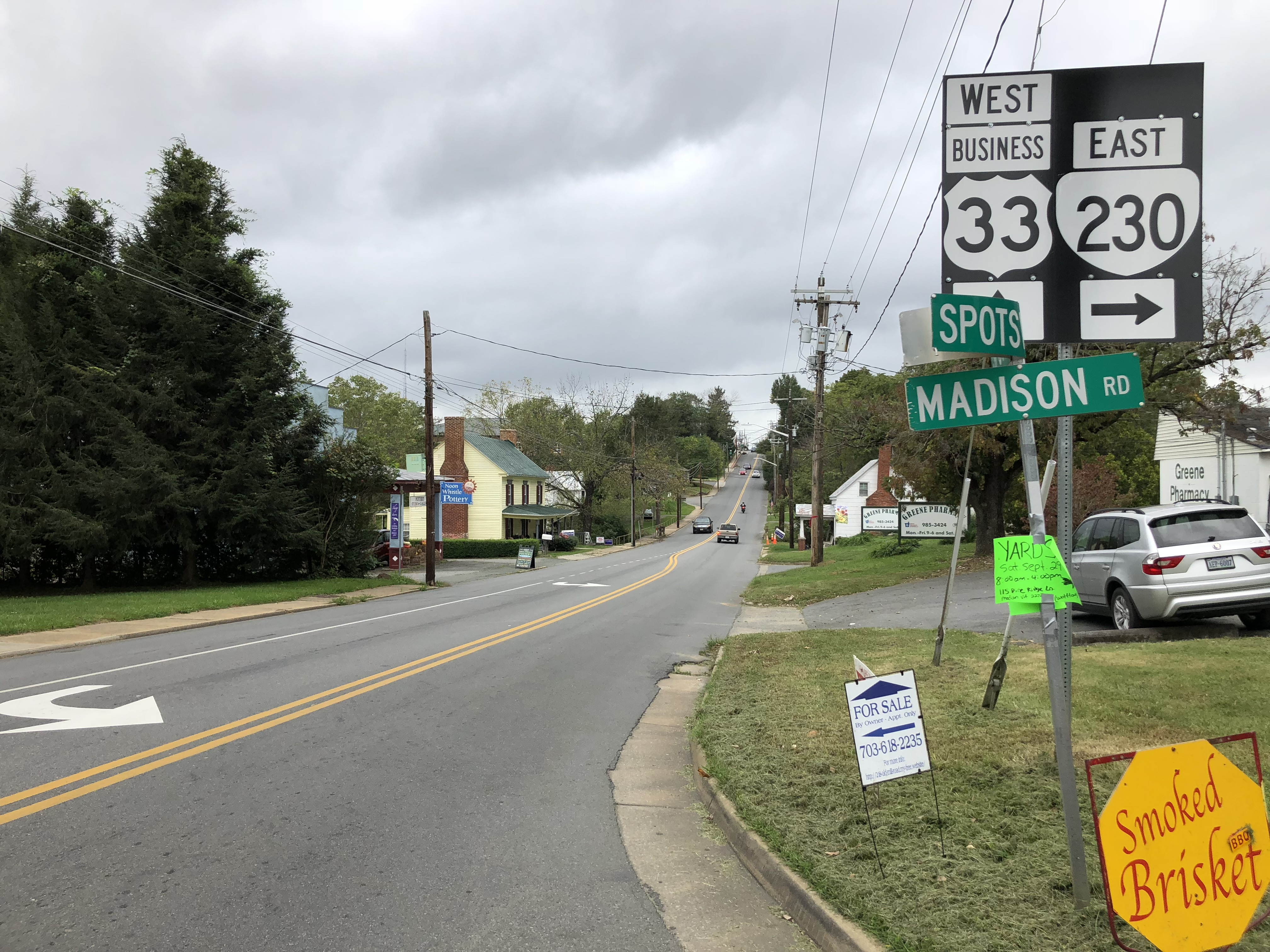 View west along U.S. Route 33 Business (Old Spotswood Trail) at Virginia State Route 230 (Madison Road) in Stanardsville, Greene County, Virginia